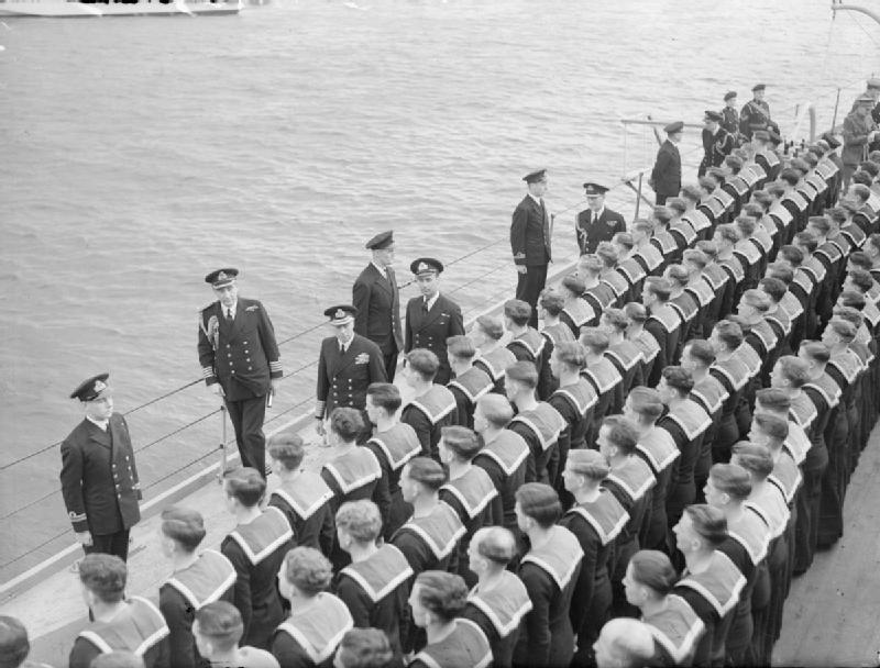 The Royal Navy during the Second World War HM King George VI inspecting divisions in HMS RAMILLIES part of the Home Fleet at Scapa Flow.